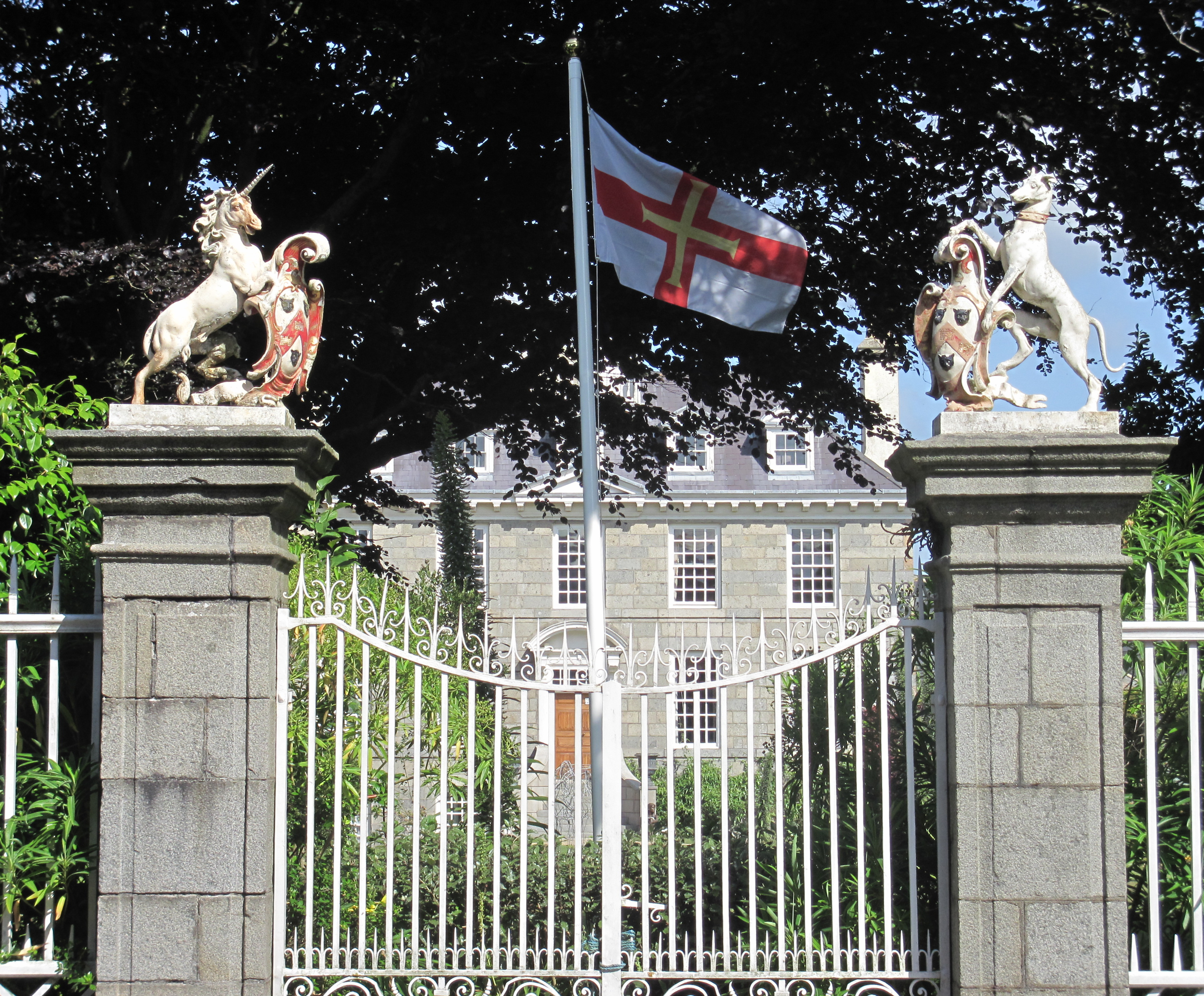 Guernsey, June-July 2011: gate to Sausmarez Manor